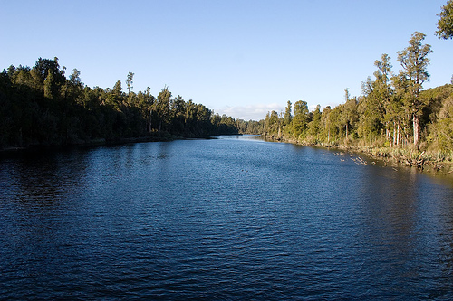 Arnold River from swingbridge near Moana, at Lake Brunner